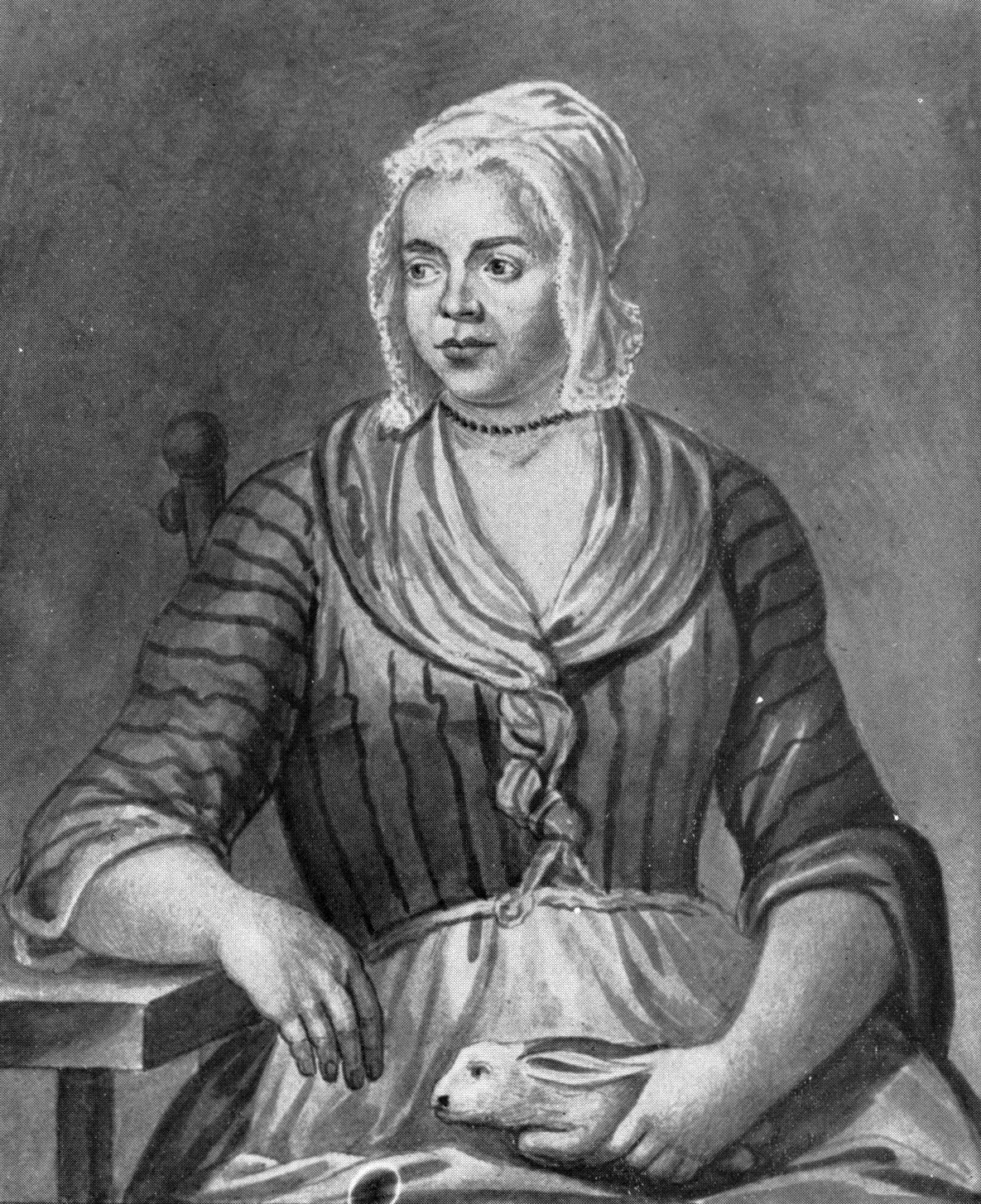 A copy of a portrait of Mary Toft